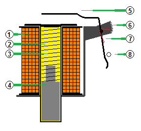 Hydraulic Shock absorber